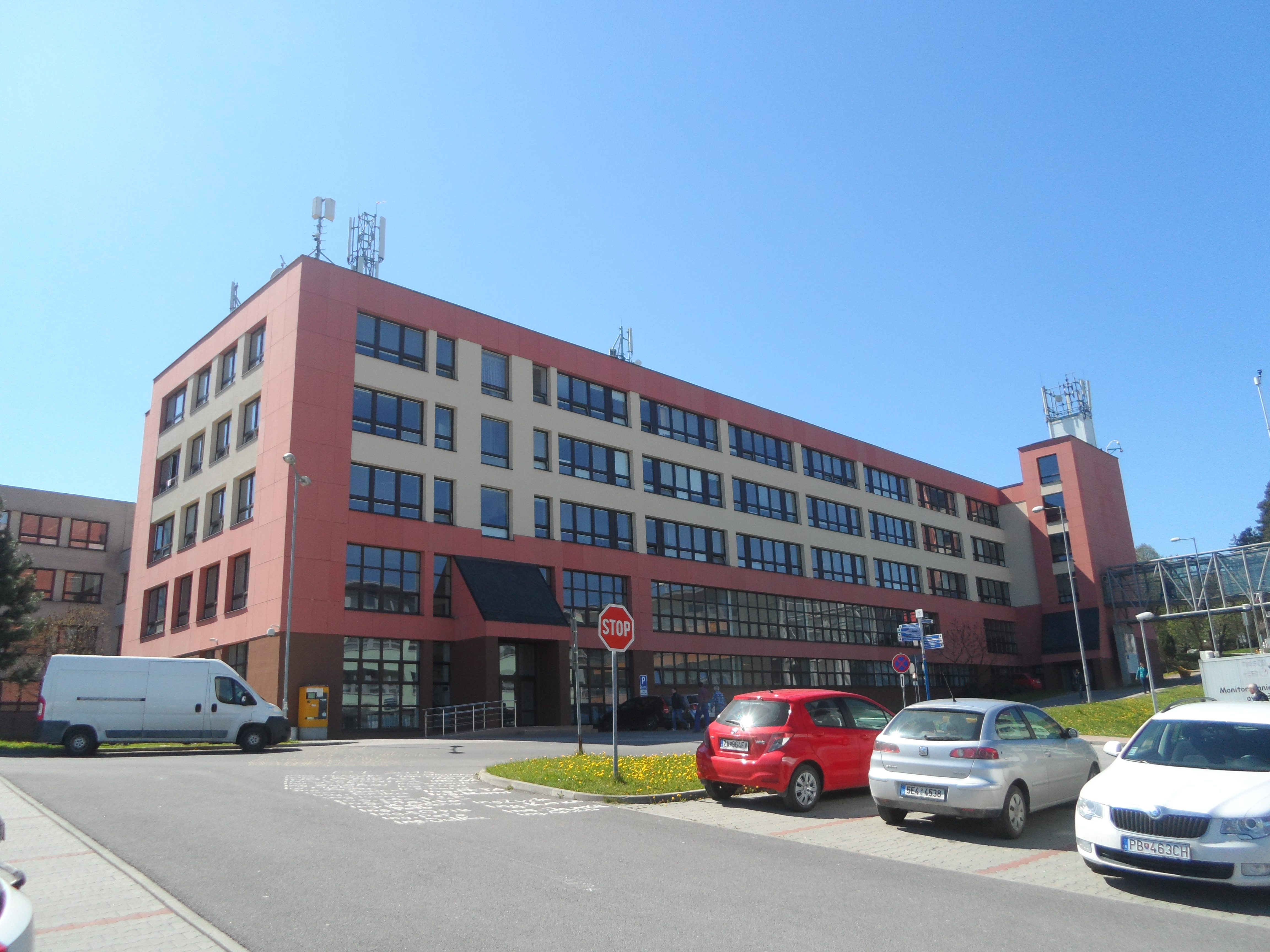 BF building - University of Žilina